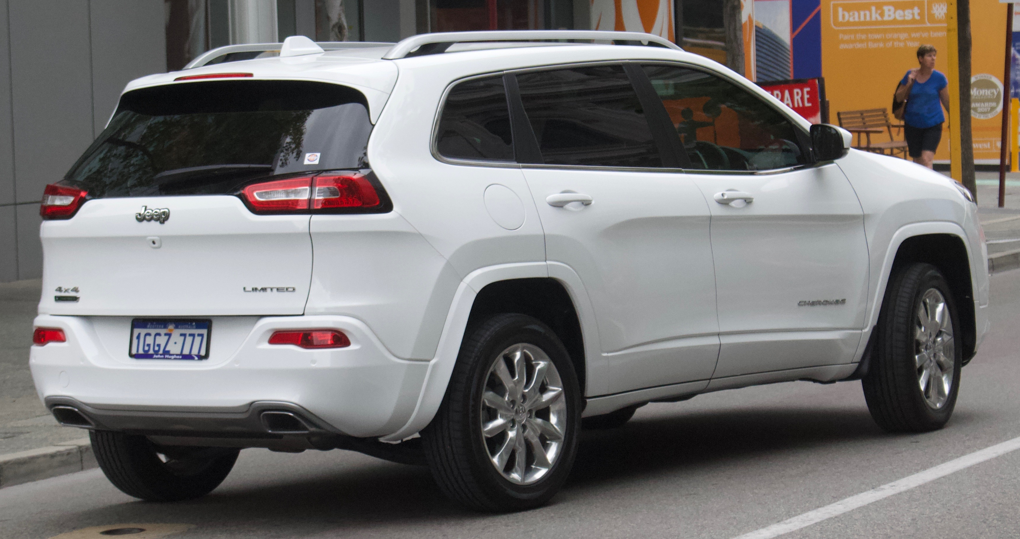 2017 Jeep Cherokee (KL MY17) Limited wagon. Photographed in Perth, Western Australia, Australia.